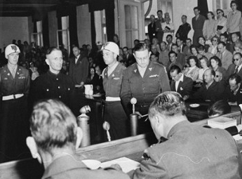 SS-Obergruppenführer Josias, Hereditary Prince of Waldeck and Pyrmont at the Buchenwald trial, Dachau, Germany.